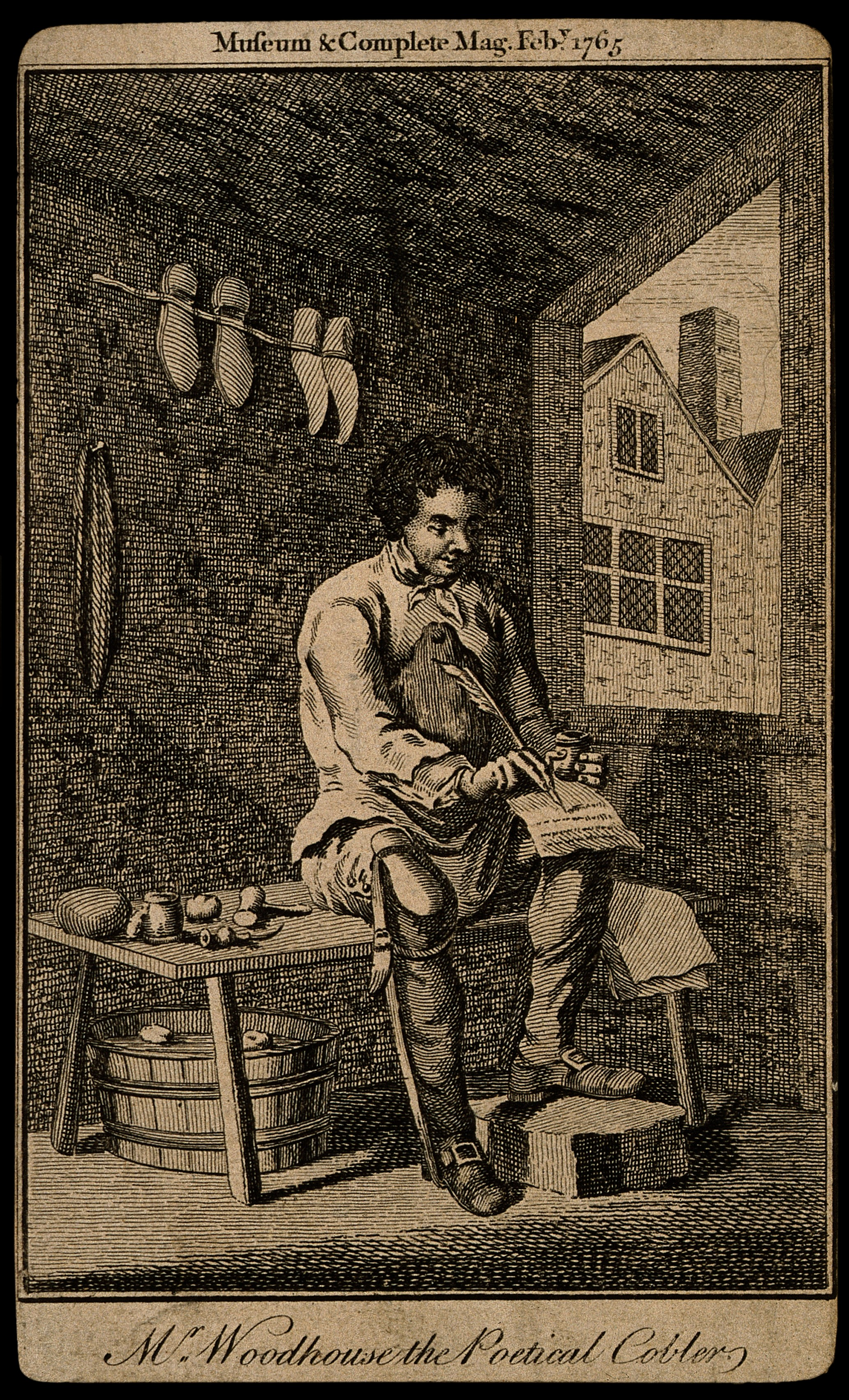 James Woodhouse, shoemaker and poet. Etching, 1765. Iconographic Collections Keywords: shoemakers; POETS; portrait prints; James Woodhouse; etchings; woodhouse, james, 1735-1820